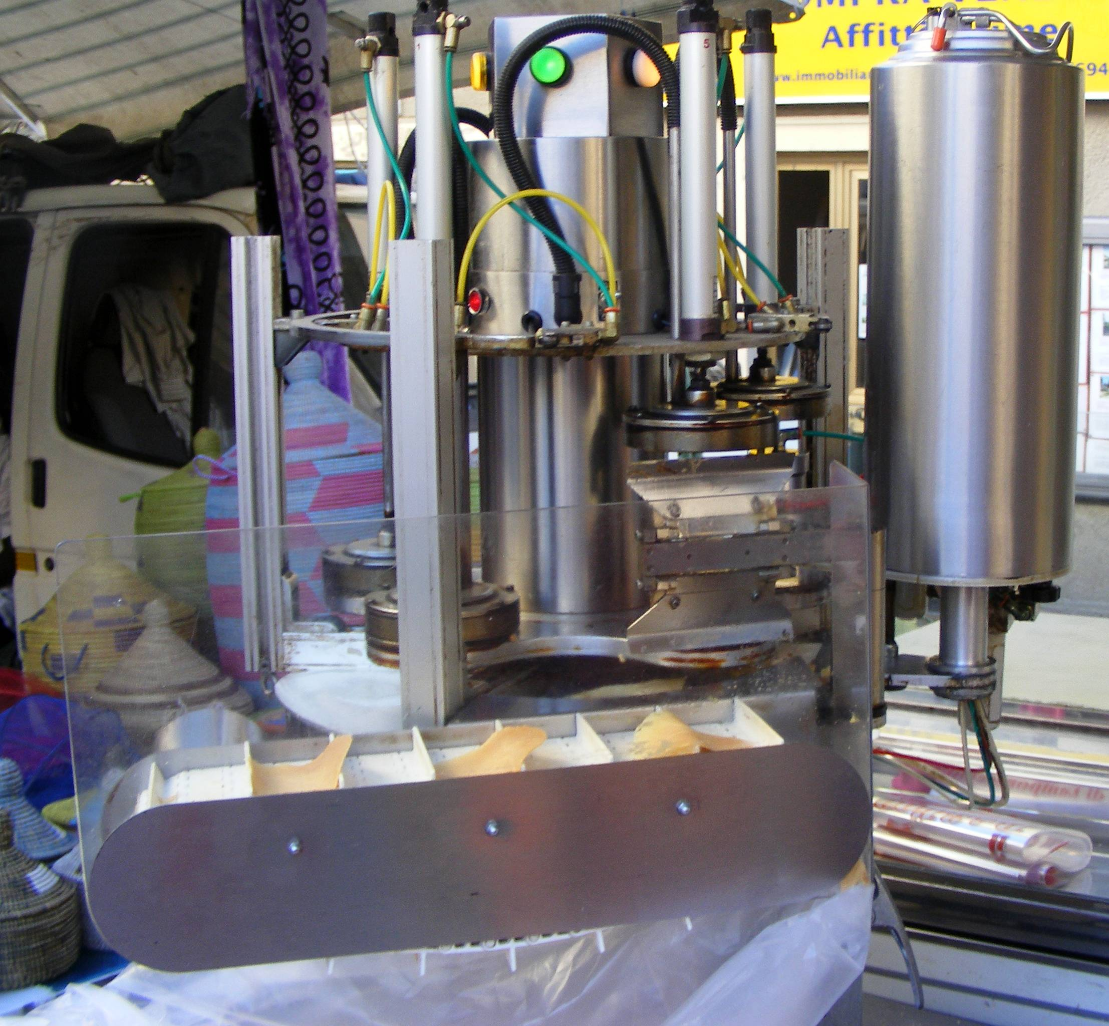 'Brigidini biscuits machine (Castellina Marittima, PI, Italy)